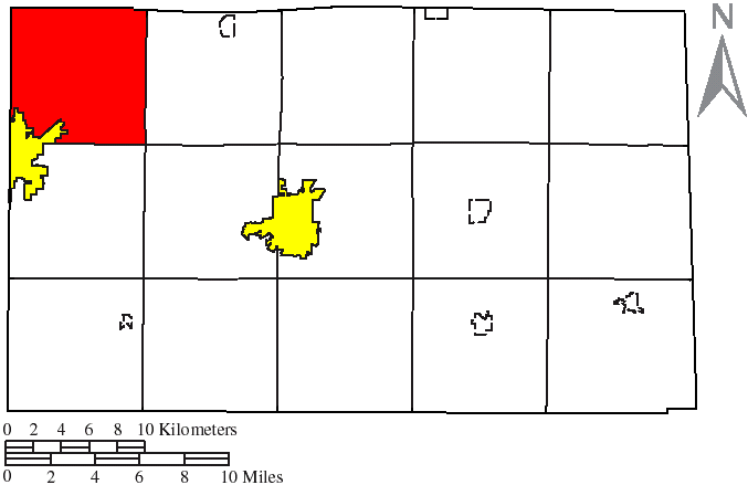 Made by the US Census and modified by myself